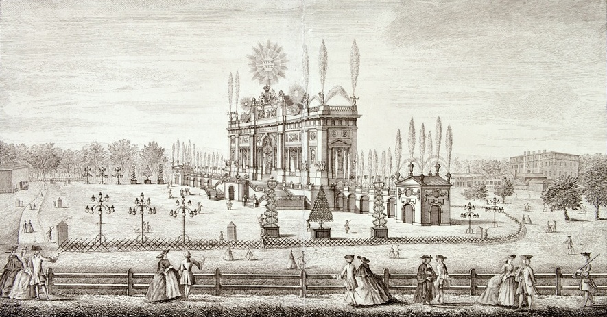 A Perspektive View of the Building for the Fireworks in the Green Park, taken from the Reservoir. Printed according to Act of Parliament & Sold by P. Brookes facing Southampton Street in the Strand, & R. Sayer opposite Fetter Lane Fleet Street